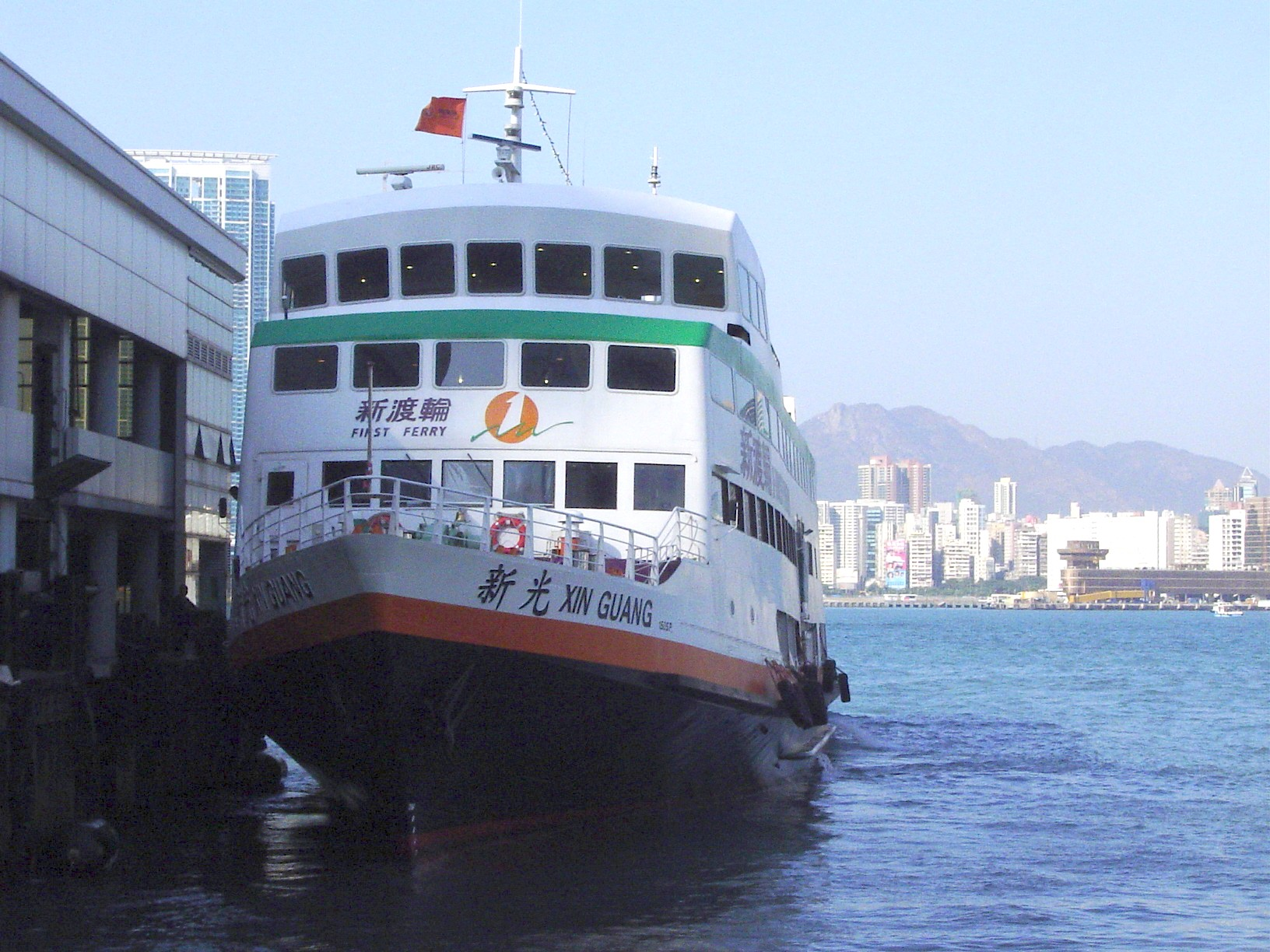 The triple decker ferry Xin Guang, owned by New World First Ferry. The photo was taken at Central Ferry Piers